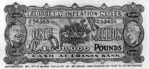 A political cartoon criticizing the inflationary plan of Scullin and Theodore, 1931